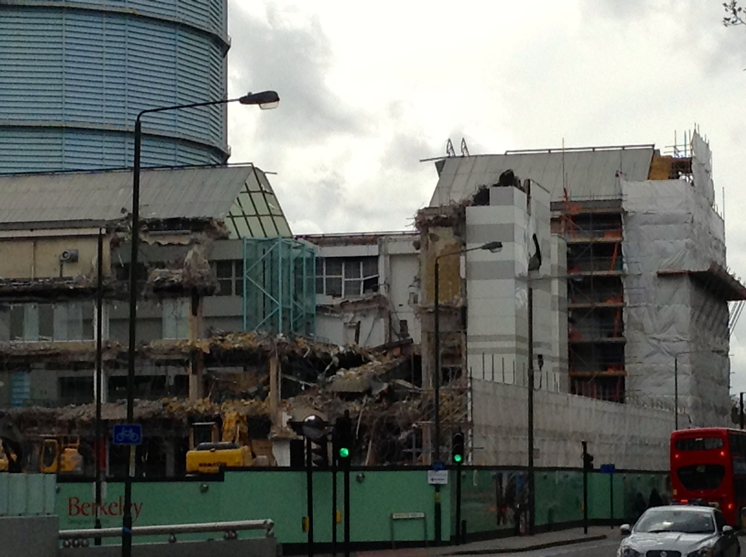 Marco Polo House demolition underway on in Battersea, London